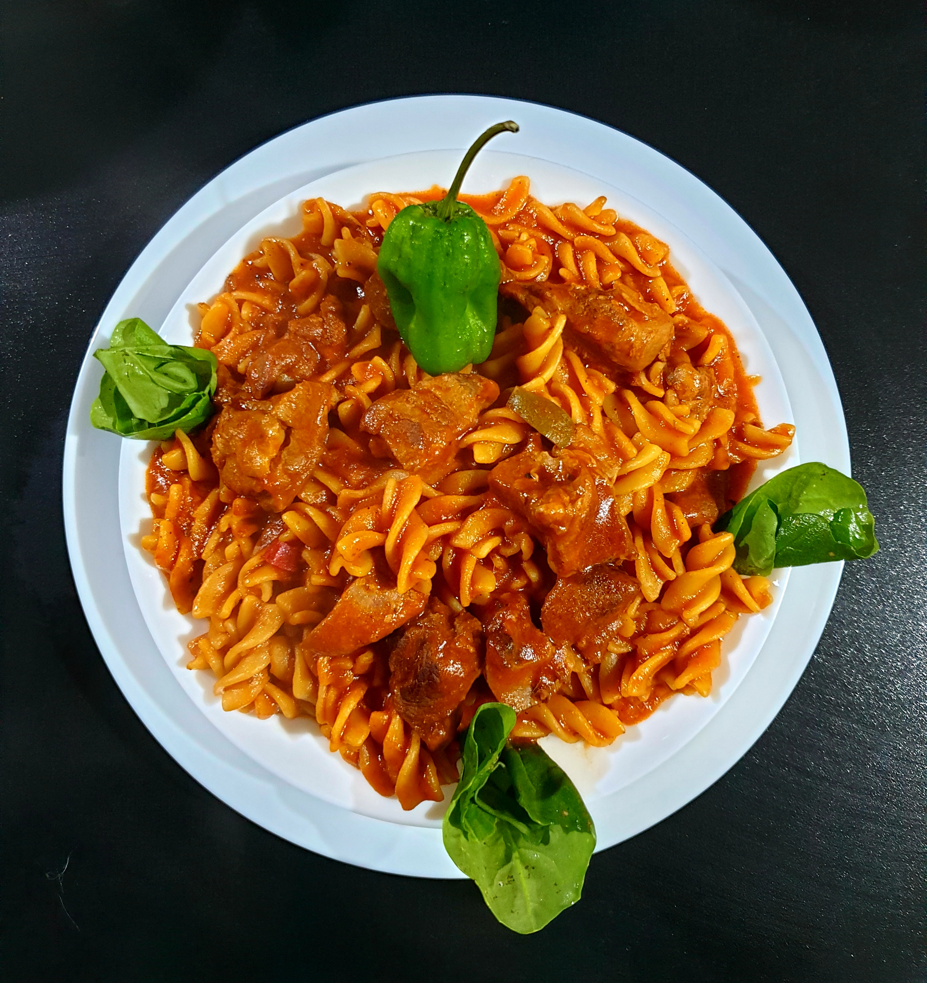 Mebakbaka is a well known dish in the Libyan cuisine. It consists of pasta usually cooked in meat broth and red sauce instead of boiling it in water.